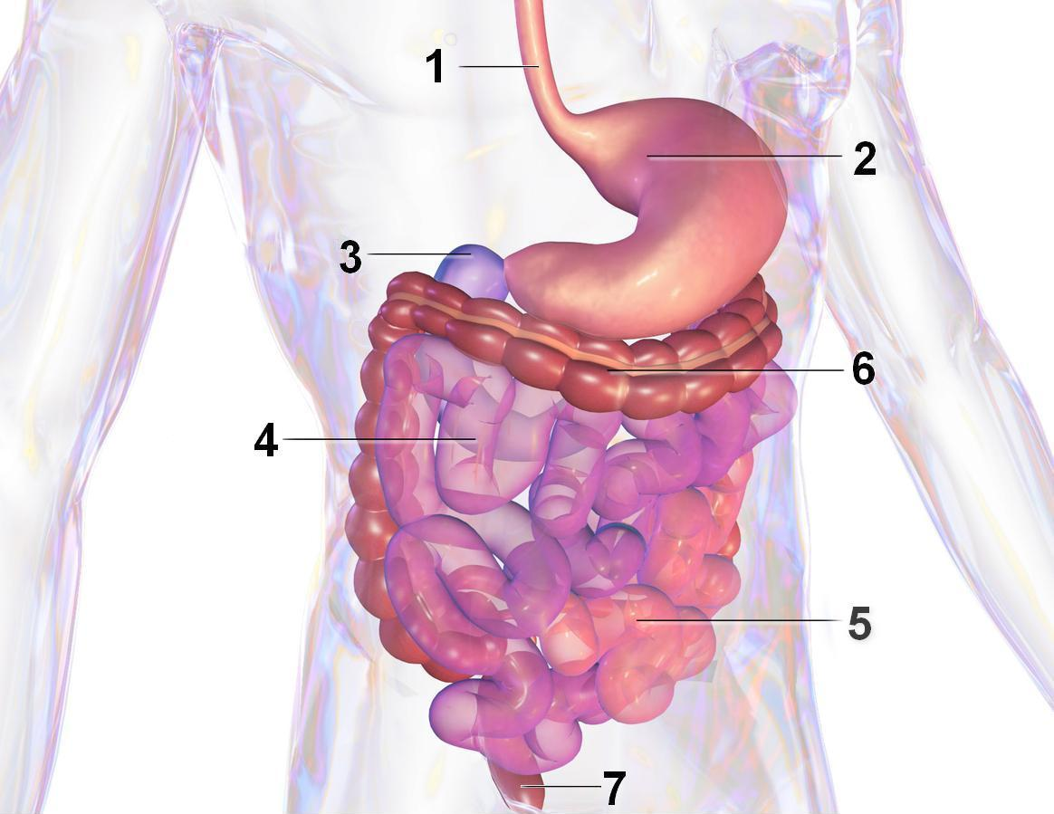 The gastrointestinal tract (digestive tract, digestional tract, GI tract, GIT, gut, or alimentary canal) is an organ system within humans and other animals which takes in food, digests it to extract and absorb energy and nutrients, and expels the remaining waste as feces. The mouth, esophagus, stomach, and intestines are part of the gastrointestinal tract. Gastrointestinal is an adjective meaning of or pertaining to the stomach and intestines. A tract is a collection of related anatomic structures or a series of connected body organs.